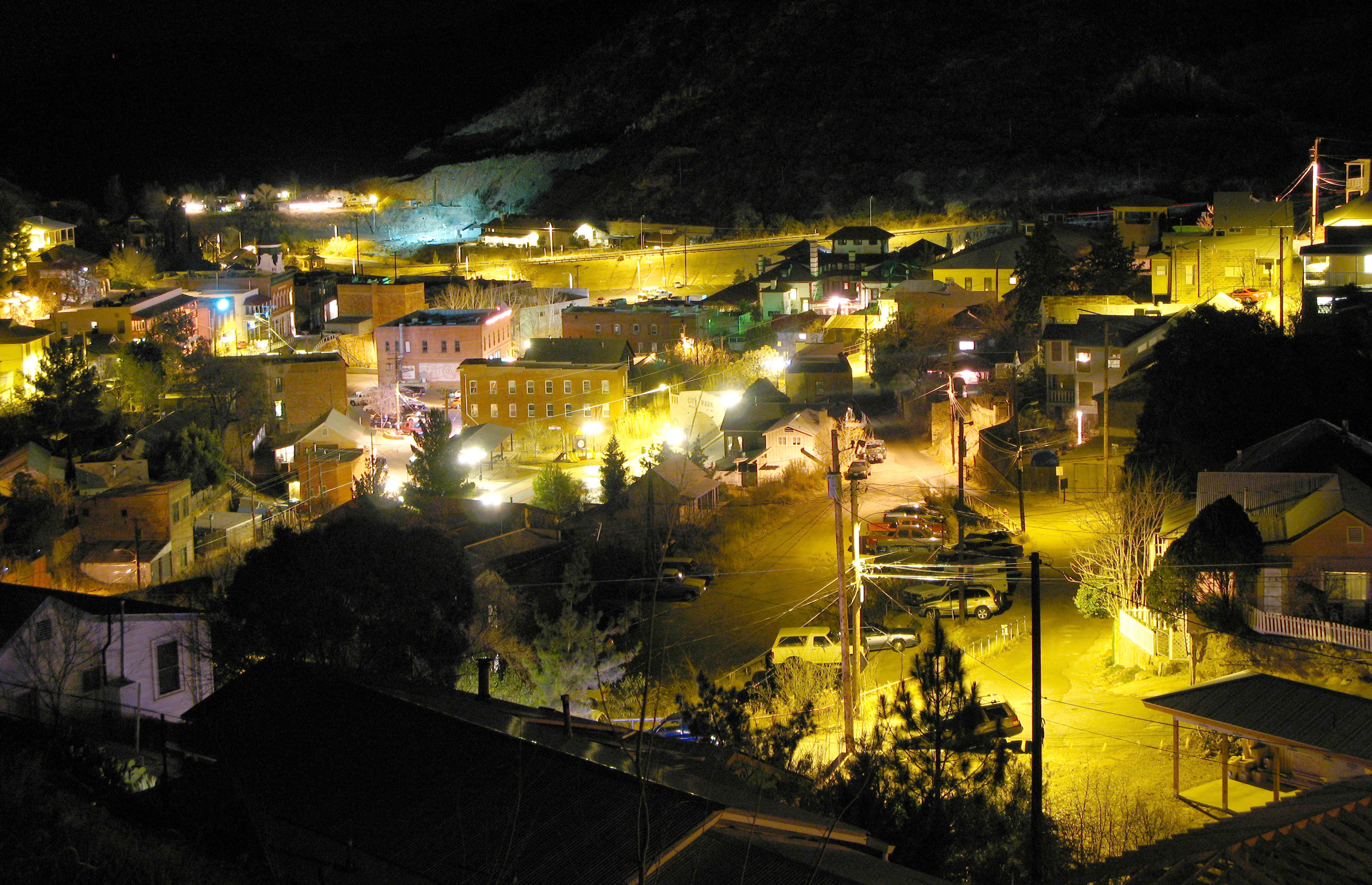 This is the first in a series of shots I will be posting from our trip to Bisbee, Arizona. It was a Christmas gift from our kids--a weekend trip away, by ourselves. It was their first time alone that long but they did great, and so did we! Bisbee is an old Arizona mountain town built into the hills. It has your requisite art and antique shops, but it's definitely different from your (e.g.) Colorado ski town, or even Arizona's Jerome. In Jerome, the hippies listen to Phillip Glass. In Bisbee, they listen to Bob Marley and I imagine have read "On the Road" within the last 3 years. This is actually an overview of what is called "Old Bisbee", and you can see pretty much all of it from the "Sleepy Dog House"--a wonderful B&B that I would highly recommend, which has the most wonderful kitsch decorating we have ever seen. I'll be showing some of it in later shots. I imagine we're 80 or 100 feet over the town center. In the very background you can barely make out a mountain, which is right where the Queen Mine is and the highway. If you look closely--I uploaded the big size so you can view large--you can see a lot of interesting detail. (Explore 2.2.2008--Thanks friends!)